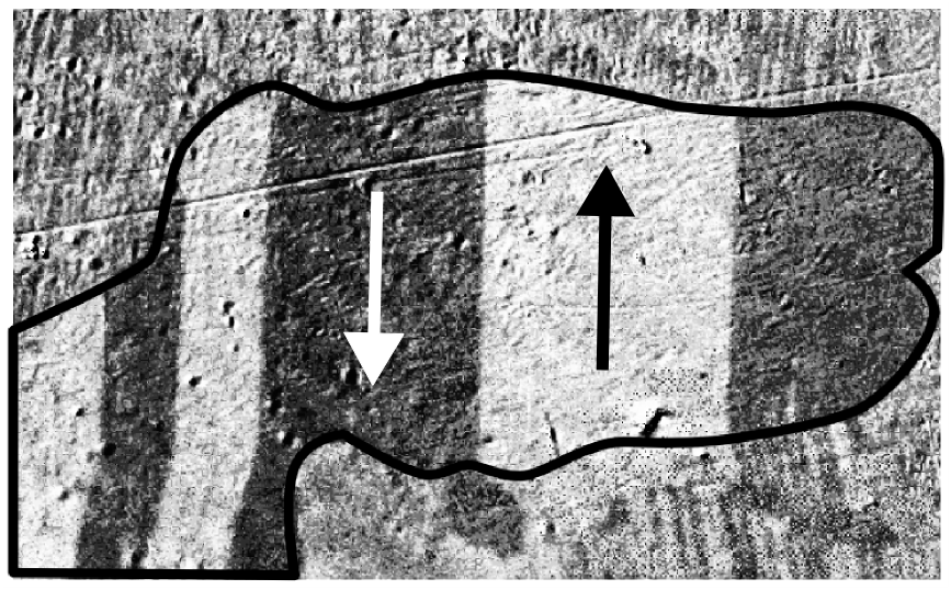 Magnetic domains in a single grain (outlined with a black line) of non-oriented electrical steel. The photo shows an area 0.1 mm wide. The sample was polished and photographed under Kerr-effect microscope. The polishing was not perfect - there is an angled scratch through the whole width of image (top half of the photo). The area outside of the grain has different crystallographic orientation, so the domain structure is much more complex. The arrows show the direction of magnetisation in each domain - all white domains are magnetised "up", all dark domains are magnetised "down".